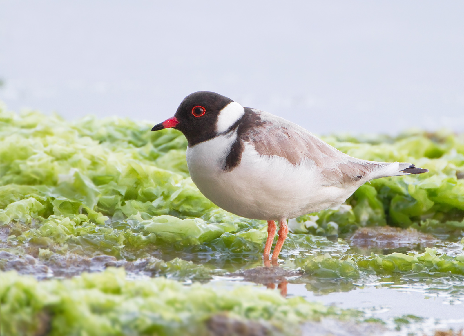 Hooded Plover (Thinornis rubricollis), Bruny Island, Tasmania